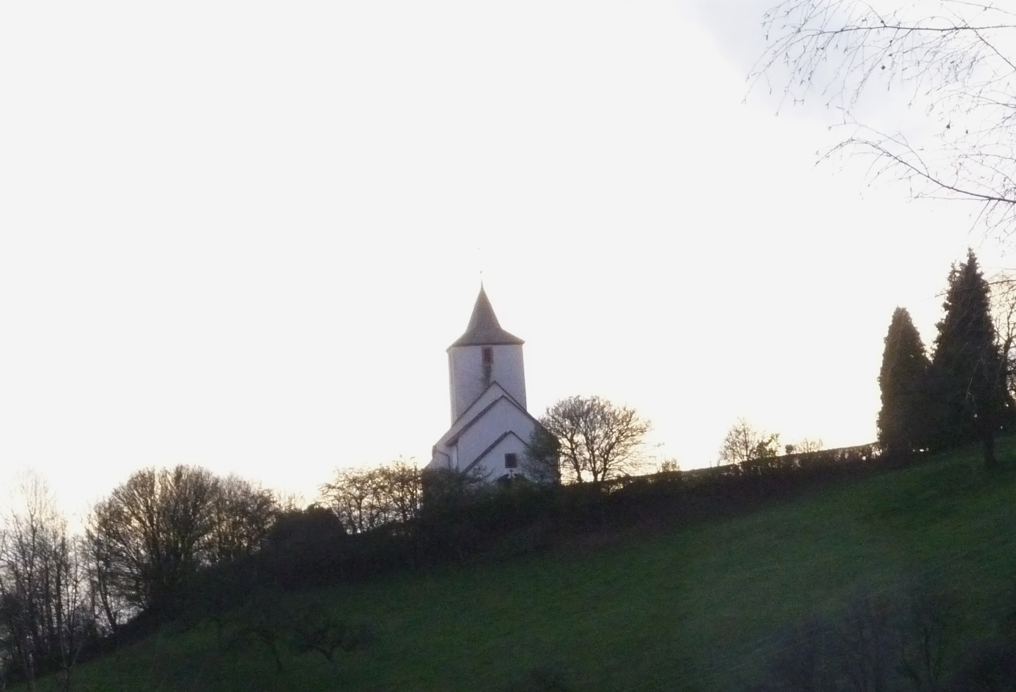 The old church in Gransdorf (Germany).